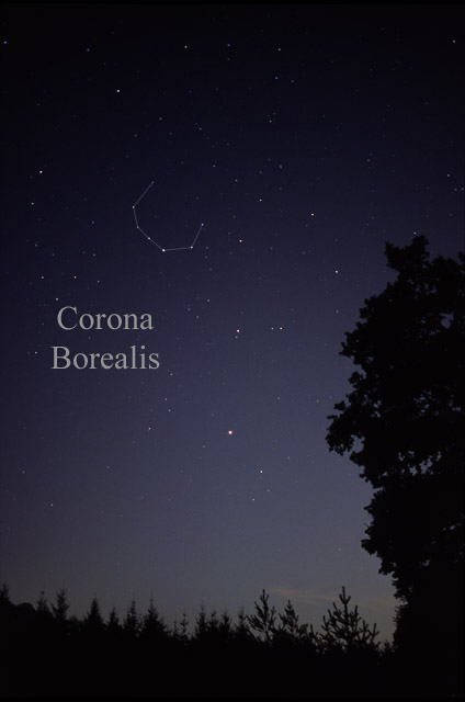 Photography of the constellation Corona Borealis, the northern crown